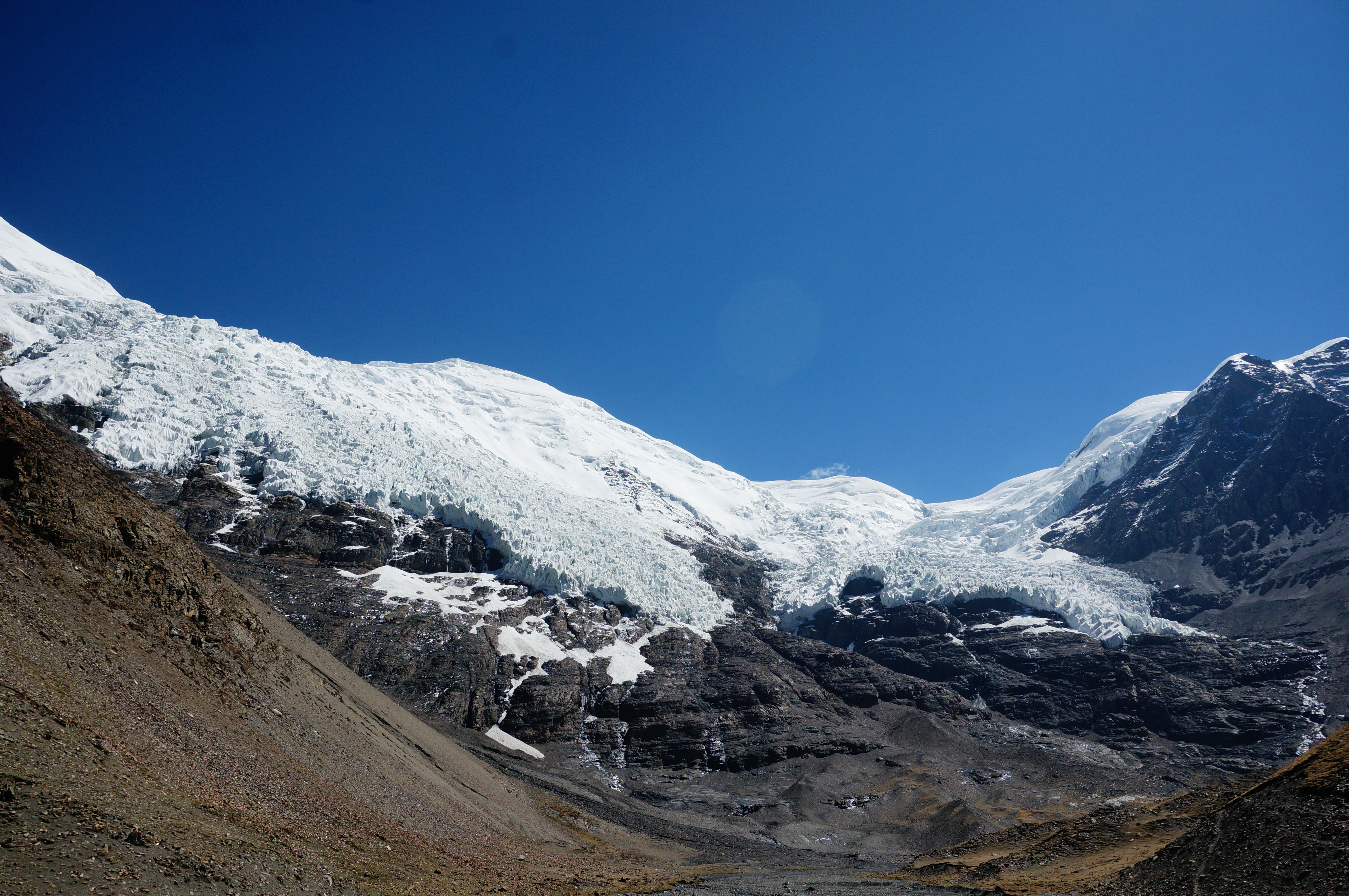 Glacier and mountain along the Friendship Highway, Tibet on 19 May 2014